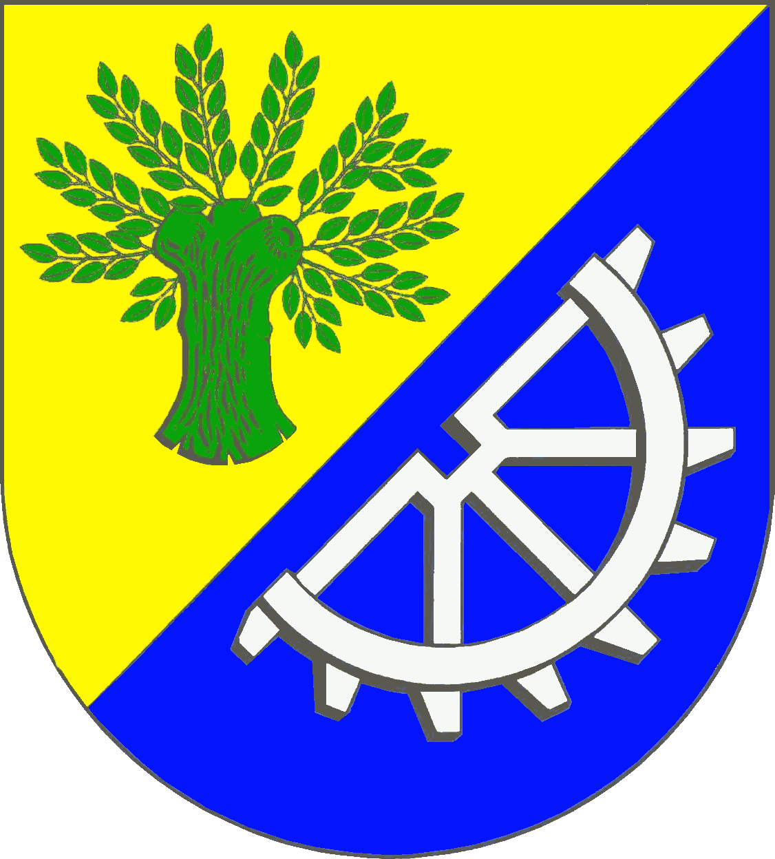 Coat of arms of the municipality Selk in Schleswig-Holstein, Germany.